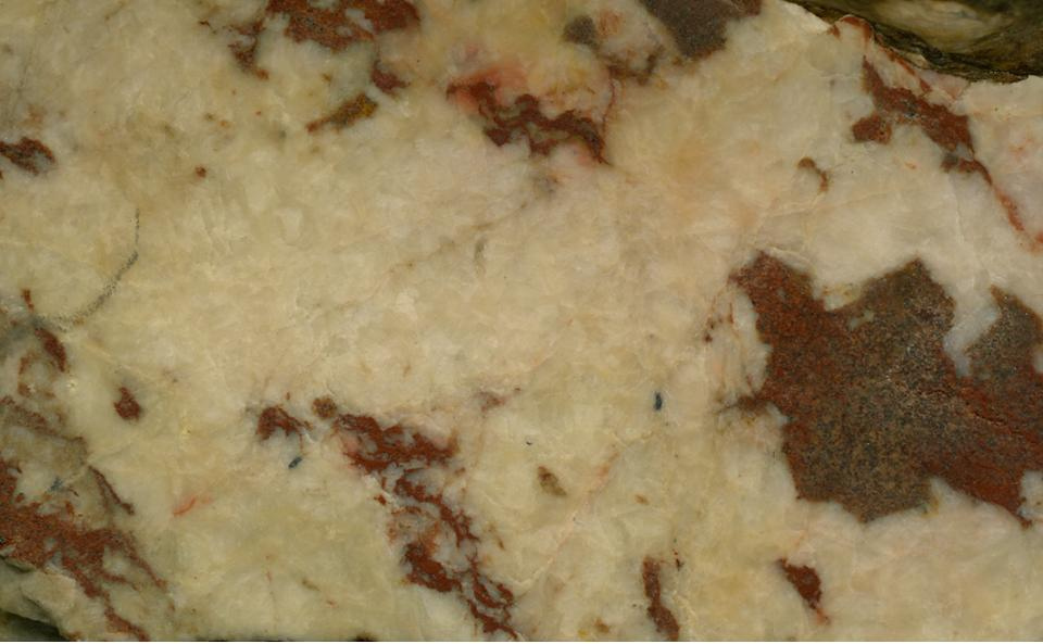 Dreamer's Hope Carbonatite from Road Gulch, northern Wet Mountains, Fremont County, Colorado, USA. This rock is from a dyke of carbonatite on the north-western edge of the McClure Mountain-Iron Mountain Alkaline Complex of Colorado. This rock is of Cambrian age, about 524 million years old. This photo shows a cut surface 53 millimetres wide.